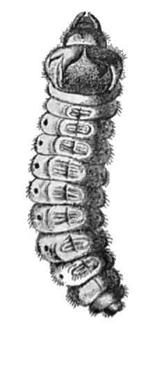 Larvae of beetles #Saperda carcharias